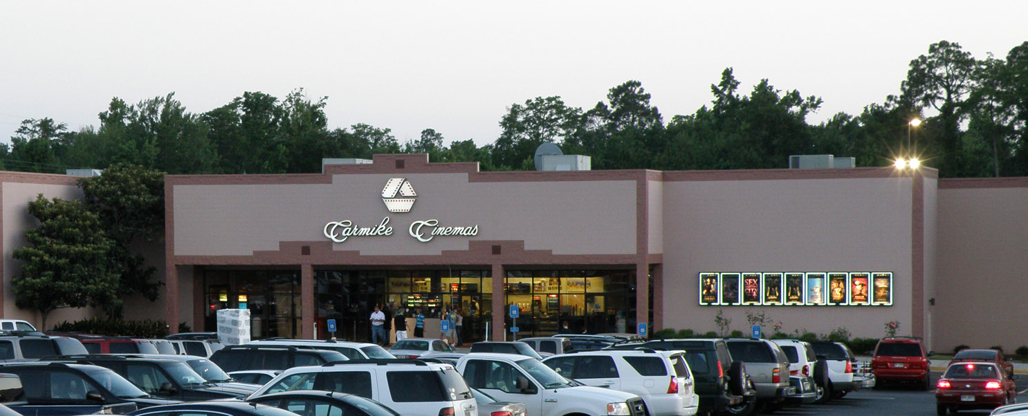 Image taken in Georgia Carmike Cinemas in 2008 on a cool summer day in the evening.